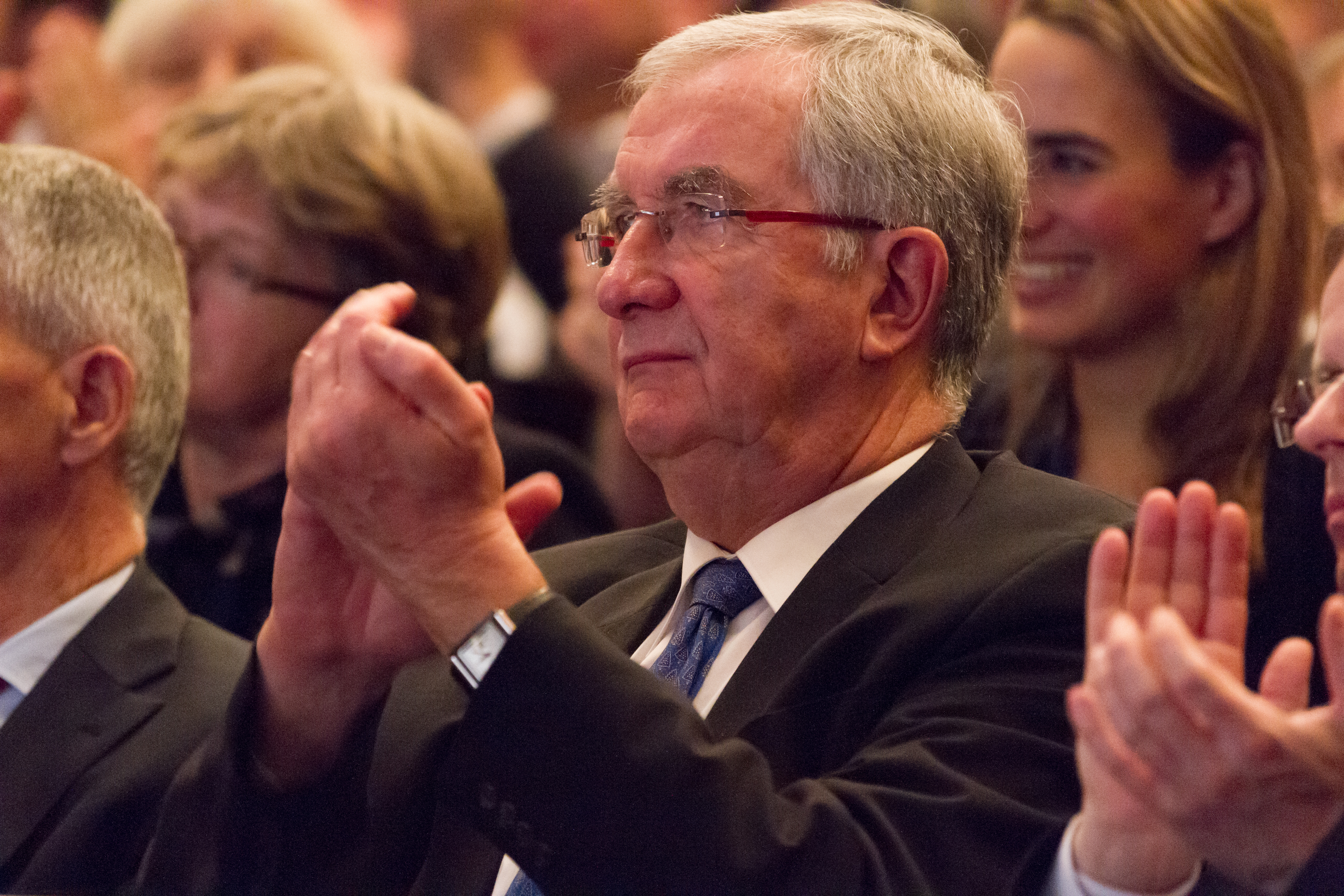 Series: Liberals' Epiphany rally hosted by the FDP Baden-Württemberg in the opera house of Stuttgart on January 6, 2015 Image: Ernst Burgbacher